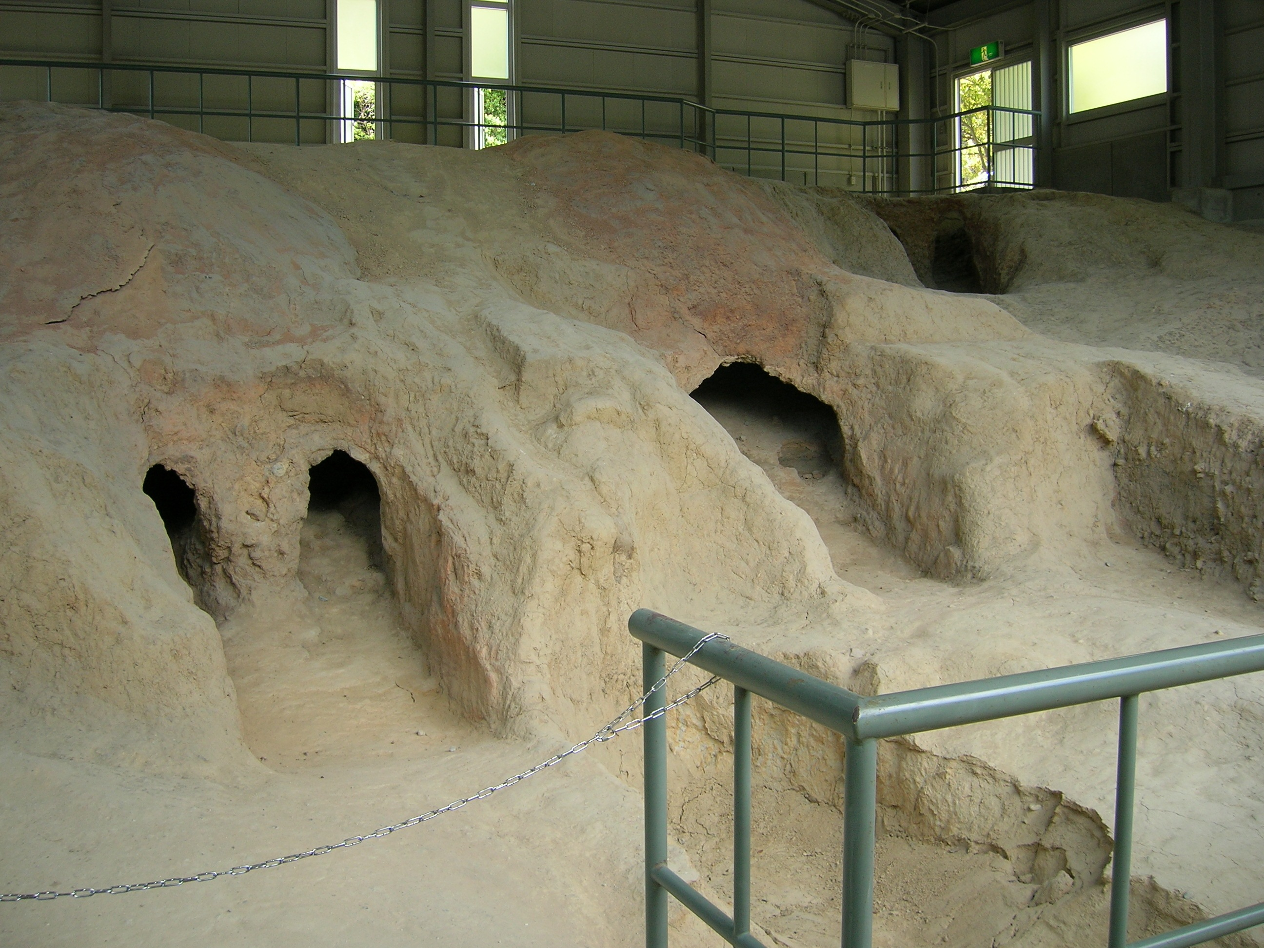 Minamiyama koyouseki-gun (Ruin of Minamiyama Old kilns). These anagama kilns were used until the Heian period Kamakura period. Loc: Seto city, Aichi Prefecture, Japan. 南山古窯跡群・9-A号窯（左）・9-B号窯（中央）・9-C号窯（右奥） 撮影場所 愛知県瀬戸市・愛知県陶磁資料館